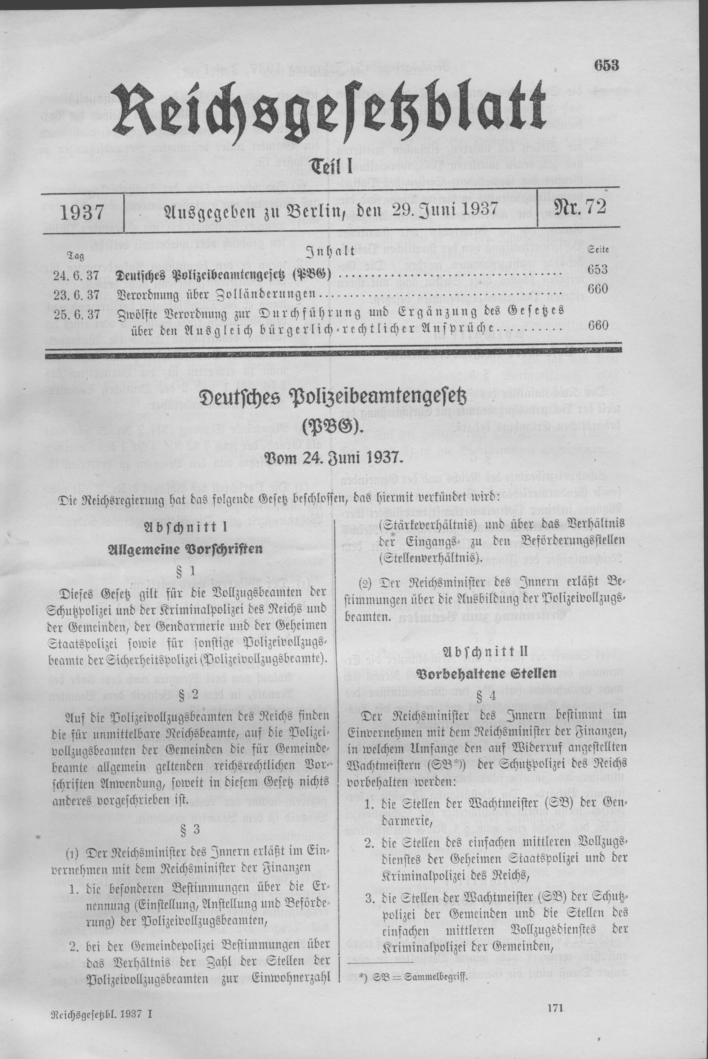 Scan from the Imperial Law Gazette of Germany, 1937, part 1